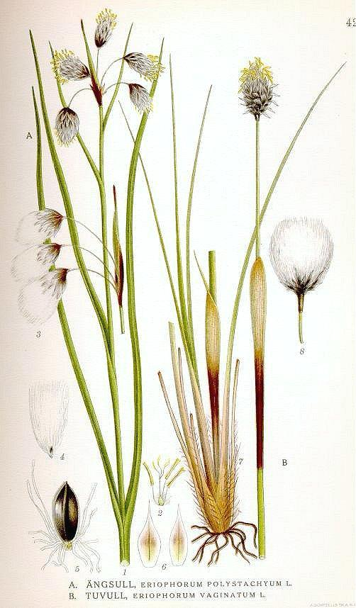 A. Eriophorum angustifolium Honck. (Syn. Eriophorum polystachion L. nom. rejic.); B. Eriophorum vaginatum L. Original Description A. Ängsull, Eriophorum polystachyum L. B. Tuvull, Eriophorum vaginatum L.